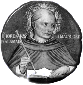 Bl. Jordan of Saxony, a fresco from a convent at Worms